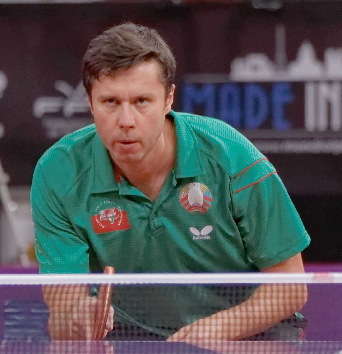 2013 World Table Tennis Championships, Paris. Men's Singles Round 4. Kenta Matsudaira vs Vladimir Samsonov.